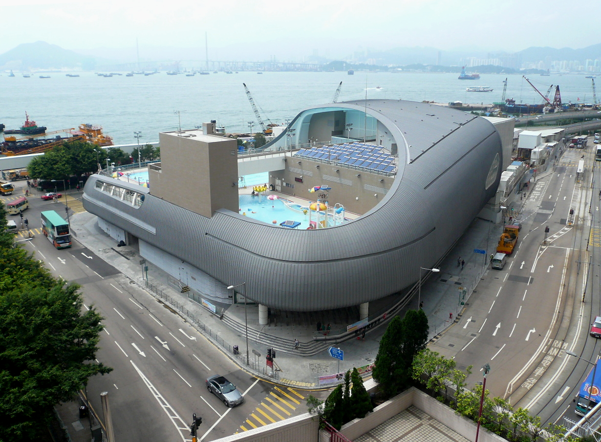 Kennedy Town Swimming Pool, Hong Kong 中文（香港）: 堅尼地城游泳池, 香港